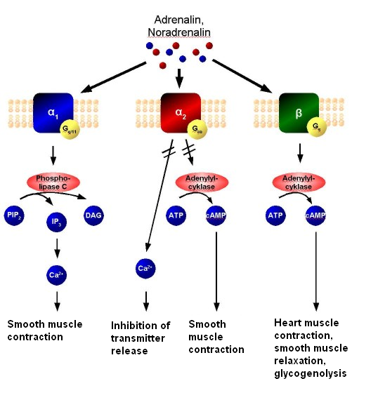 Categories of adrenergic receptors, their signal transductions and their effects.